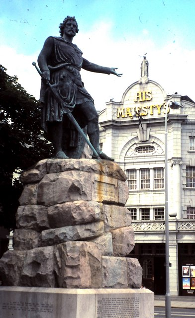 Statue of Sir William Wallace This large and dramatic statue of the great Scottish patriot, Sir William Wallace,c.1270-1305,, was sculpted by W.B. Stevenson (1849-1919), and placed in a commanding situation opposite His Majestys theatre and can be seen from afar. It was cast in bronze and stands on a plinth of Corrennie granite.